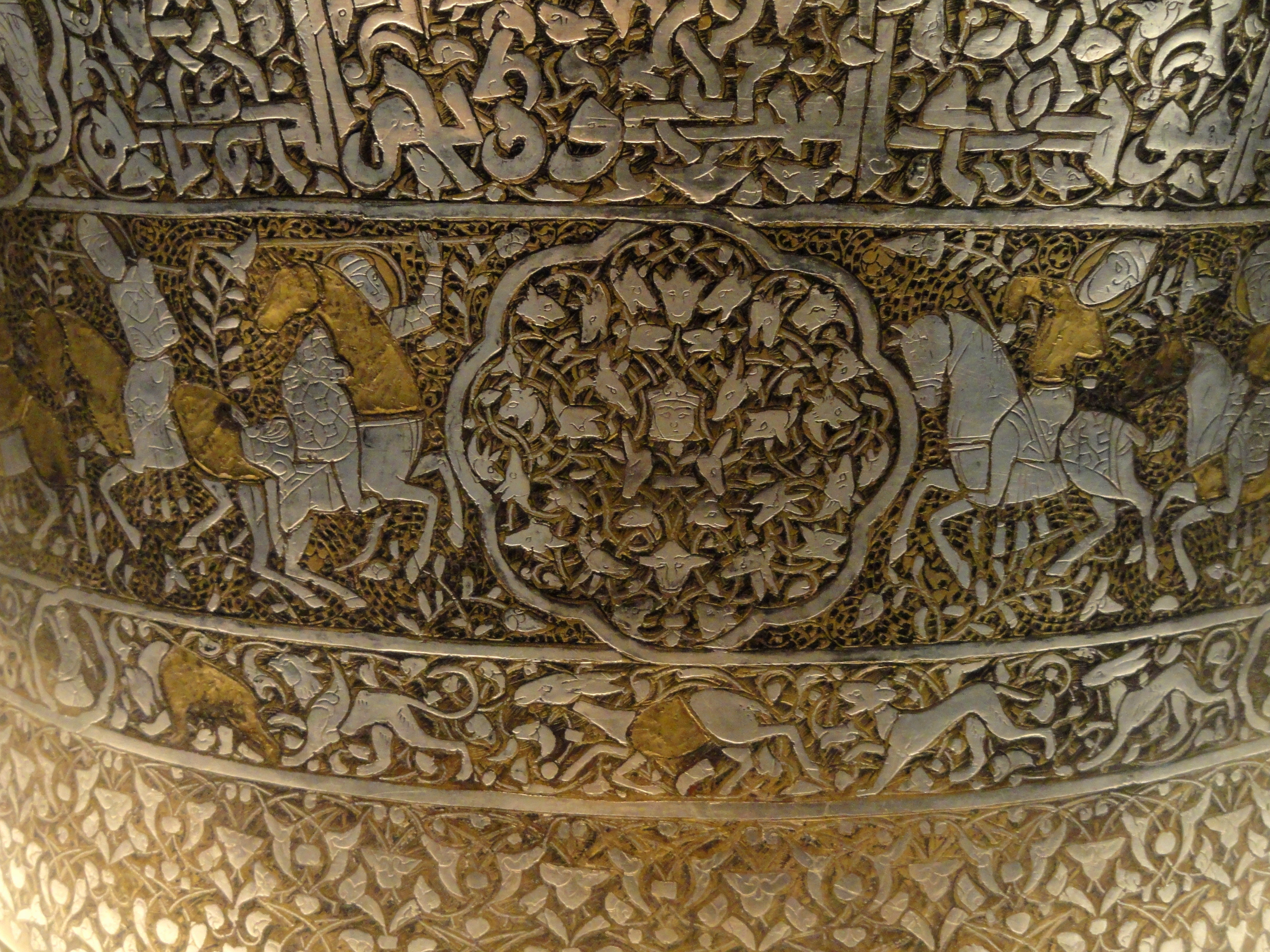 Exhibit in the Freer Gallery of Art, Washington, DC, USA. This artwork is old enough so that it is in the public domain.